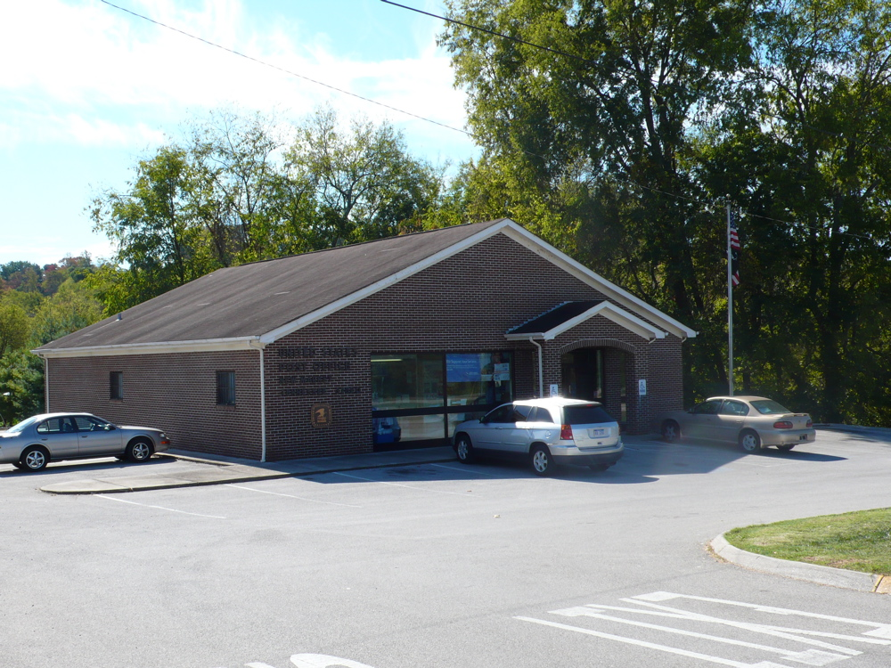 The U.S. Post Office in New Market, TN.